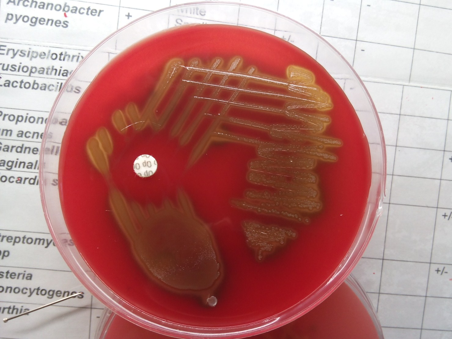 Streptococcus pneumoniae culture on blood agar showing optochin sensitivity